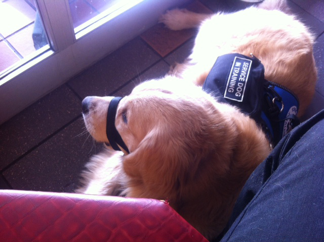 Service dog calmly waiting while handler eats at a restaurant.